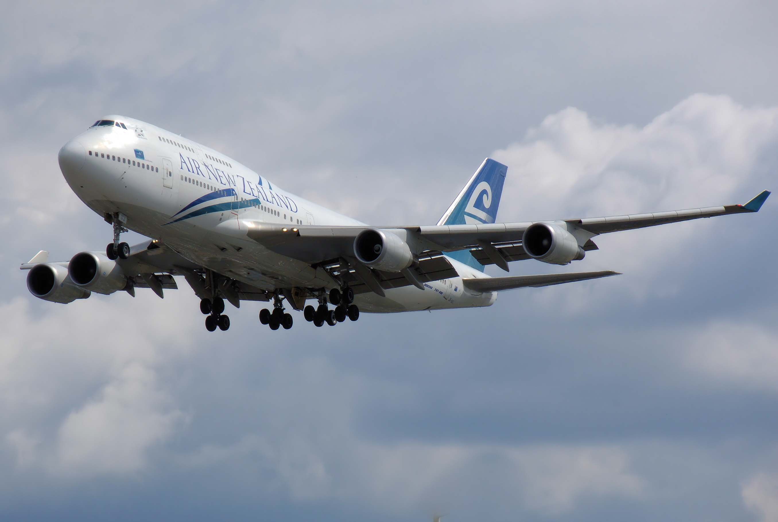 Air New Zealand Boeing 747-400 (ZK-SUJ) lands at London Heathrow Airport.